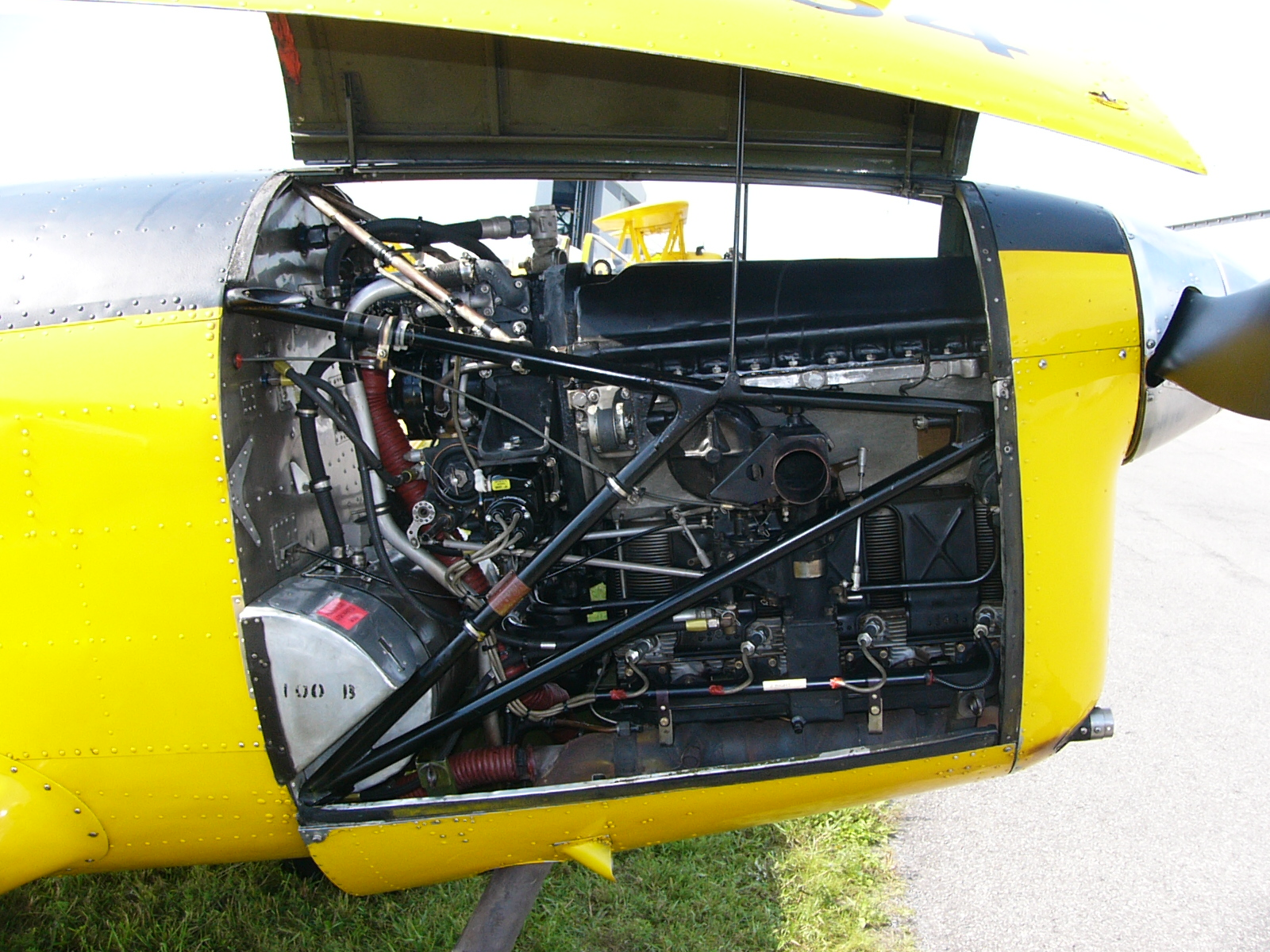 Engine installation, Dehavilland DHC-1B-2-S5 Chipmunk C-FBNM